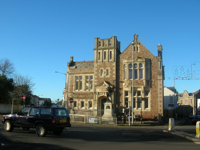 Camborne Library And Richard Trevithick Statue. Camborne Library and statue of Richard Trevithick who invented the steam locomotive The Puffing Devil